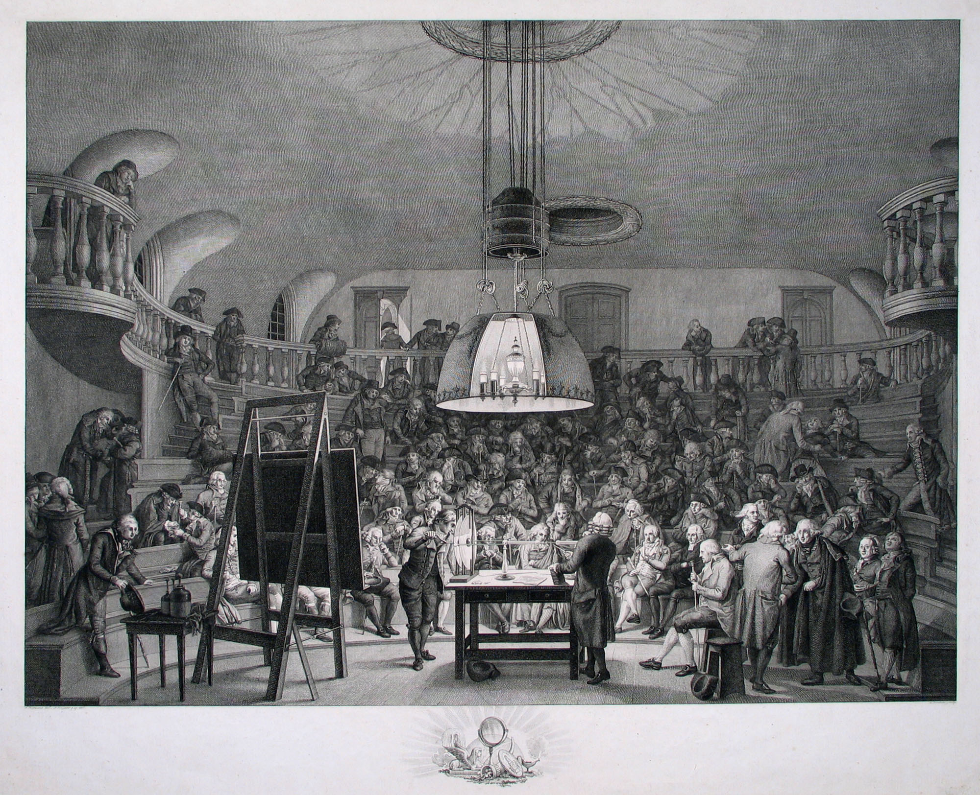 Engraving: The hall of the physics of Felix Meritis to J. Kuyper 1794, on the table in the middle is an electrifying, left is a table with Leyden jars.